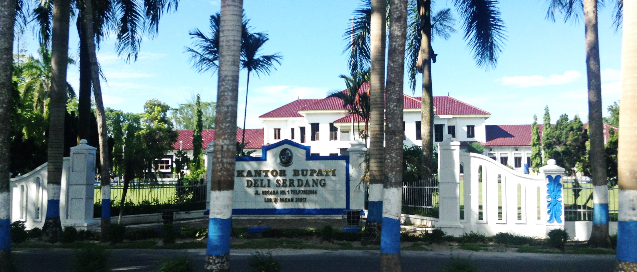 Office of Deli Serdang, Sumatra Utara